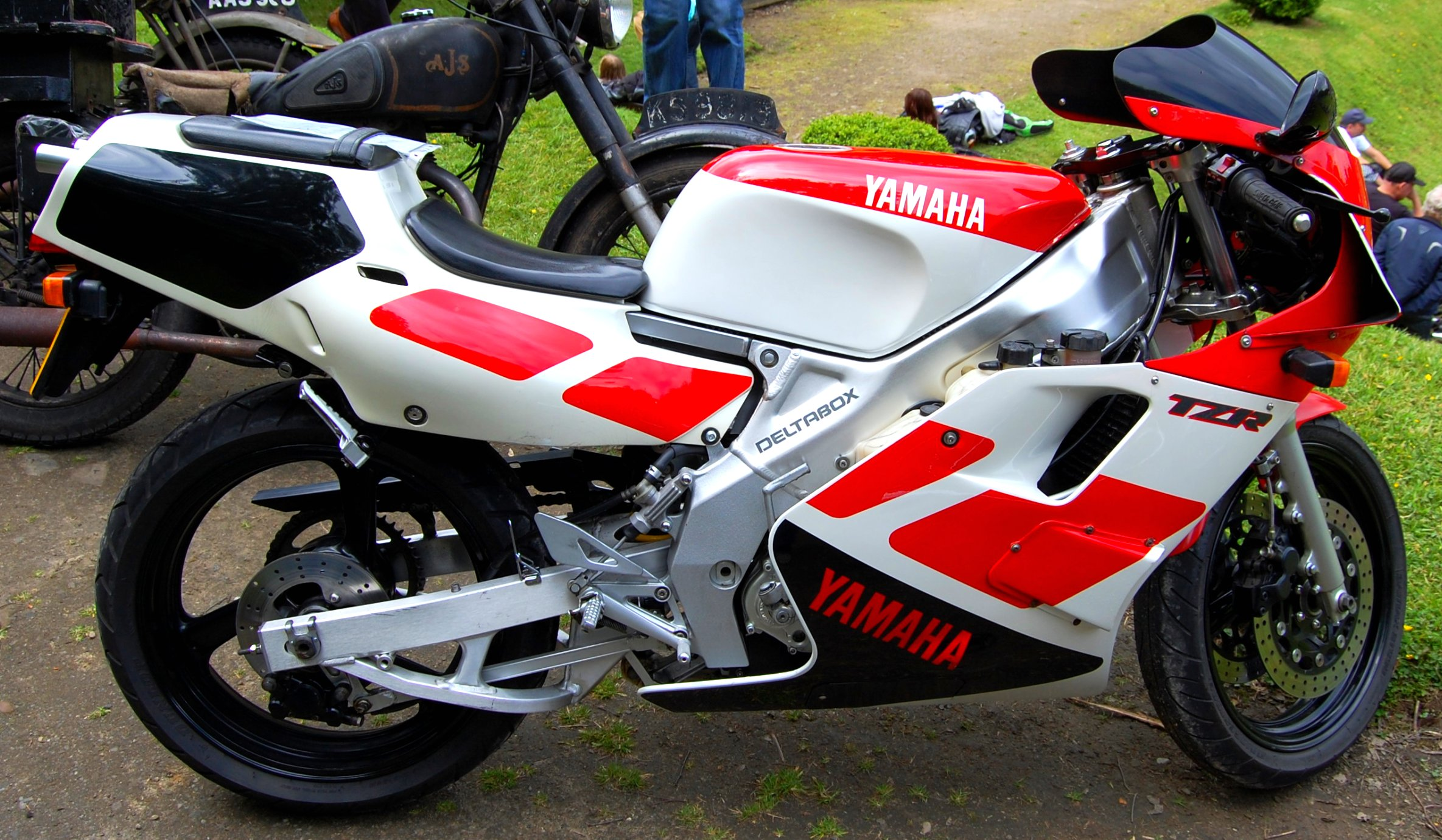 Yamaha produced road going 2-stroke motorcycle, based on the TZ250 Yamaha racing bike. Parallel twin, V-twin, and reverse cylinder variants. It evolved as a natural replacement for the popular RD 250/350 LC series of the 1980's It has Yamaha Power Valve System (YPVS) which raises and lowers the exhaust port depending on the rpm of the engine, the YPVS servo starts to open at about 6,000rpm. In standard form 50bhp is claimed at 10,000rpm. Although mid 40's is more realistic, and will not rev much above 9,500rpm in standard trim owing to the restrictive standard exhausts and ignition boxes.